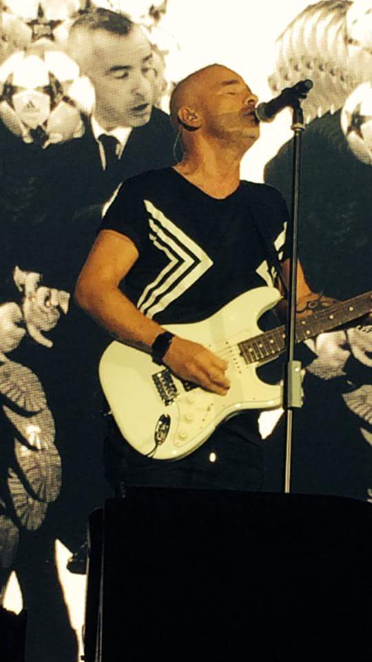 Italian musician, singer and songwriter Eros Ramazzotti in 2015.